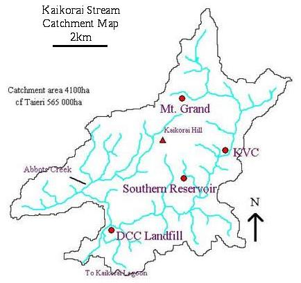 Map of Kaikorai Stream catchment, Dunedin, New Zealand. Key: KVC=Kaikorai Valley College; DCC=Dundin City Council.